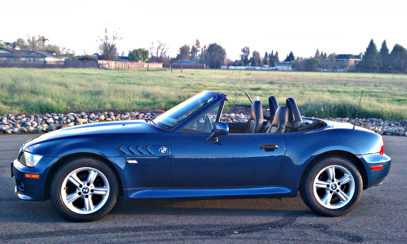 2001 BMW Z3 Sideview Topdown Topaz Blue 2.5i